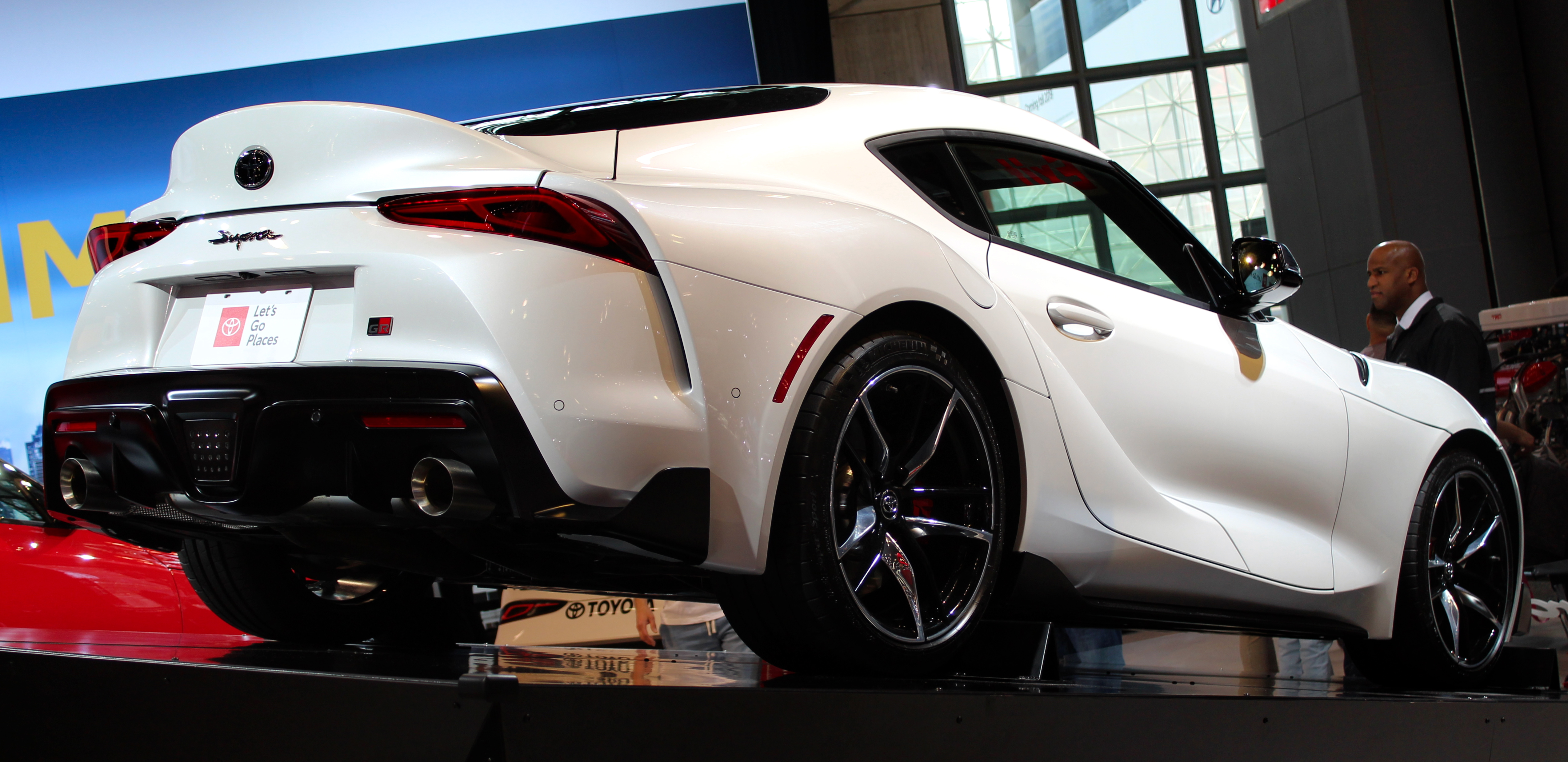 A 2020 Toyota Supra photographed during the 2019 New York International Auto Show, in Hudson Yards, Manhattan, NYC